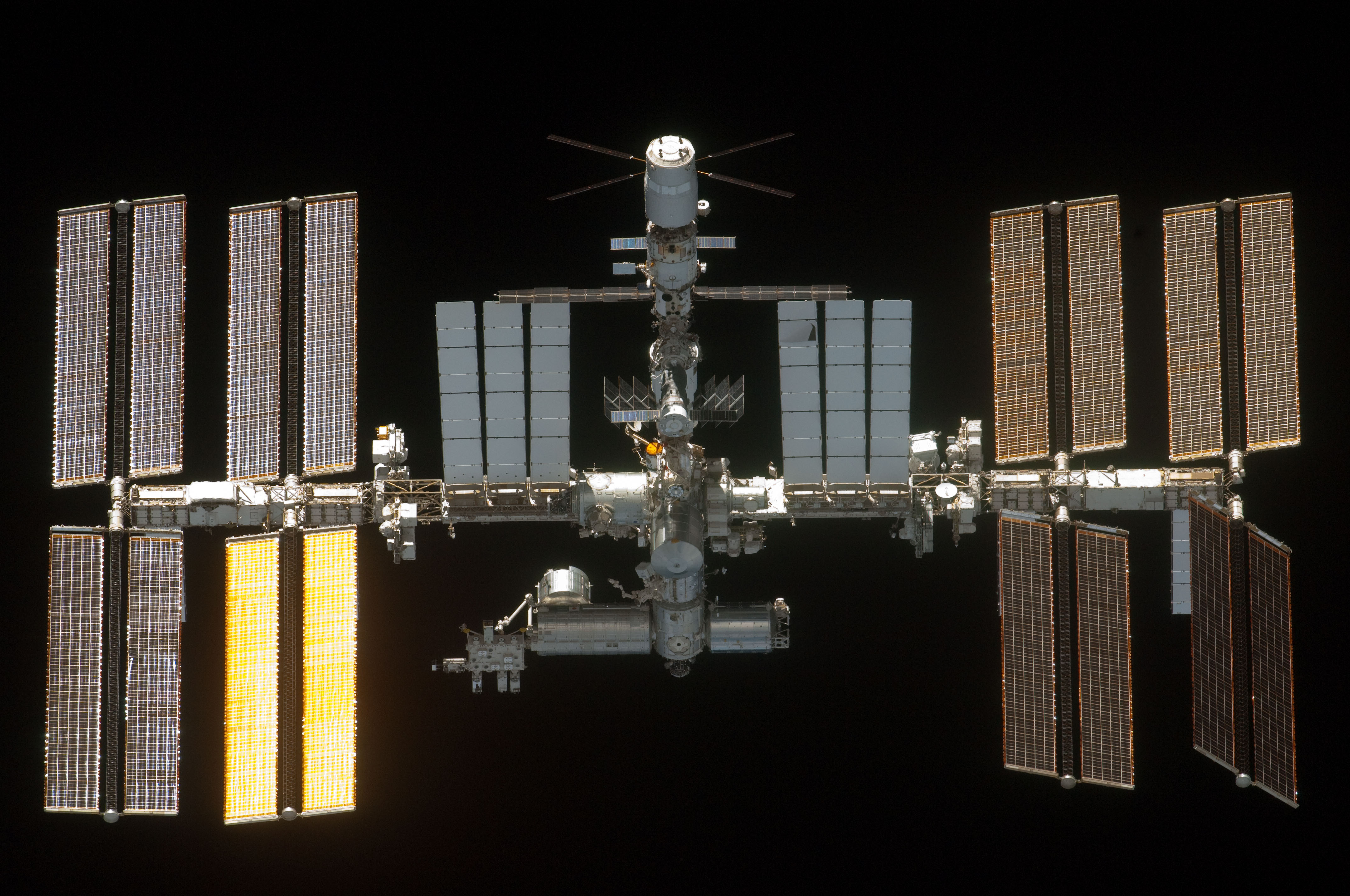 Backdropped by the blackness of space, the International Space Station is featured in this image photographed by an STS-134 crew member on the space shuttle Endeavour after the station and shuttle began their post-undocking relative separation. Undocking of the two spacecraft occurred at 11:55 p.m. (EDT) on May 29, 2011. Endeavour spent 11 days, 17 hours and 41 minutes attached to the orbiting laboratory.